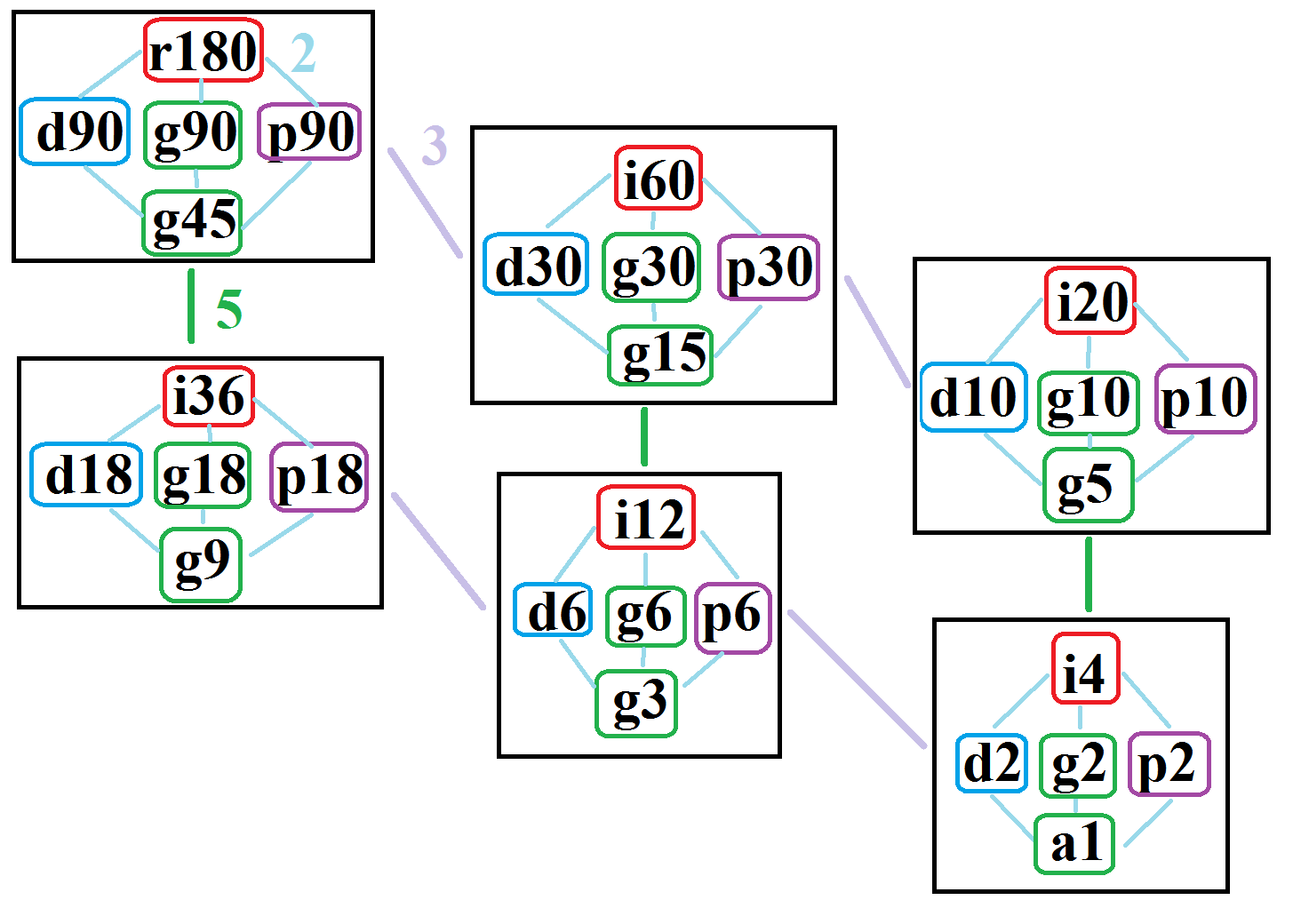 enneacontagon symmetries